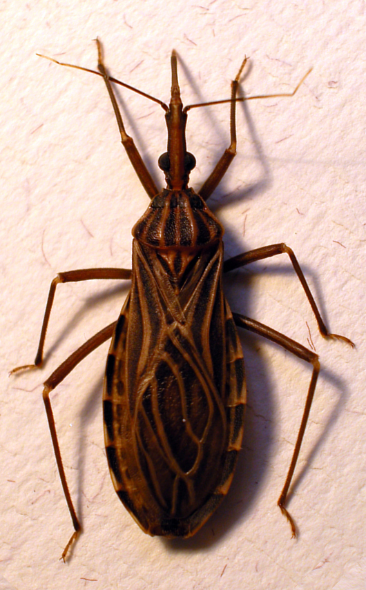 Rhodnius prolixus